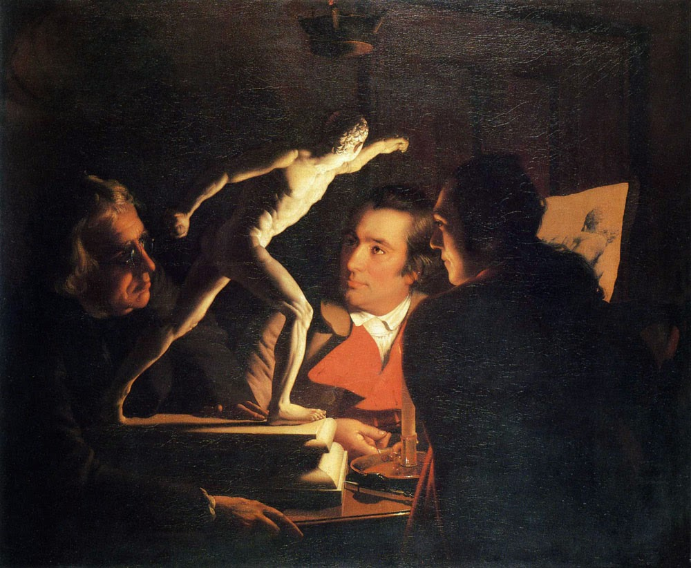 Three Persons Viewing the Gladiator by Candlelight. The middle figure is thought to be P.P.Burdett